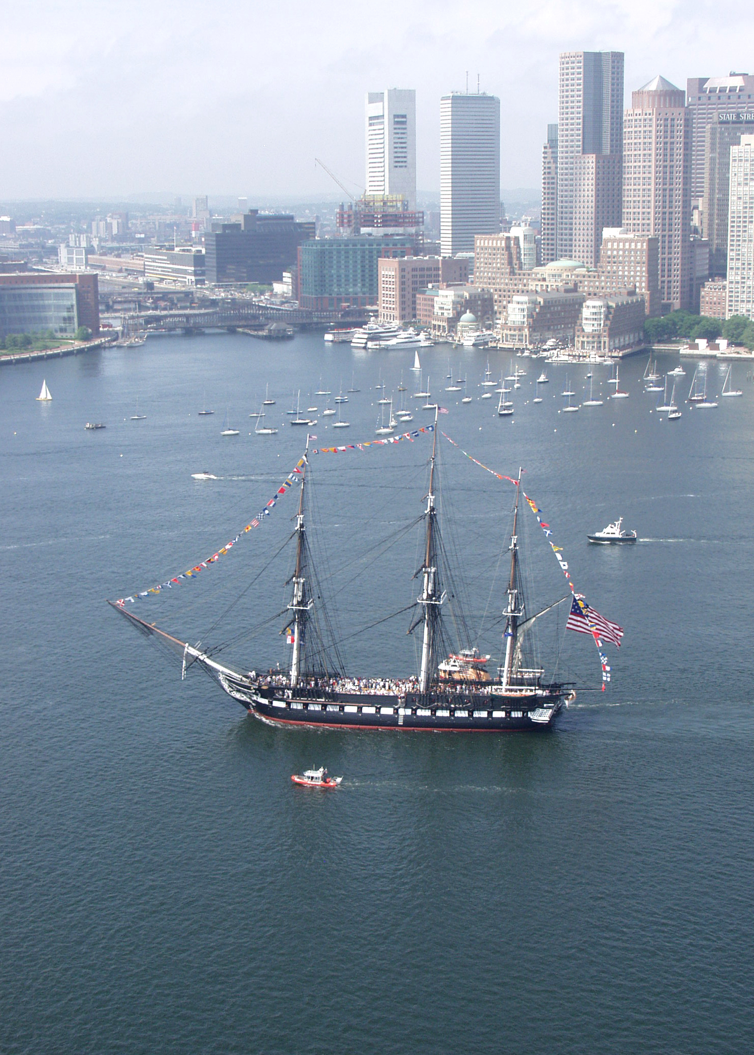 050716-N-0335C-004 Boston (July 16, 2005) - USS Constitution, the world's oldest commissioned warship afloat, sails past downtown Boston on her "Salute to the Pacific Northwest" cruise. Constitution embarked on her third turnaround cruise of the year with approximately 600 guests aboard, many of the from the country's Pacific Northwest region. Constitution makes several turnaround cruises a year. U.S. Navy photo by Journalist 1st Class Matt Chabe (RELEASED)